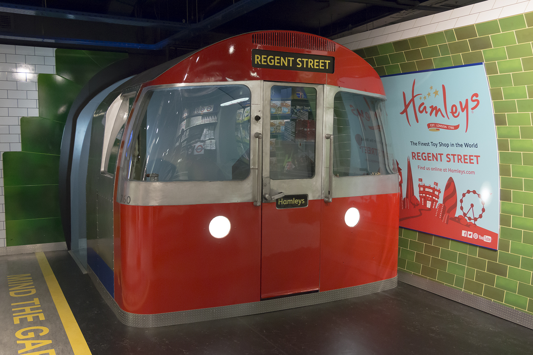 1972 Tube Stock converted into a tourist exhibit. Removed and sold privately as of July 2018